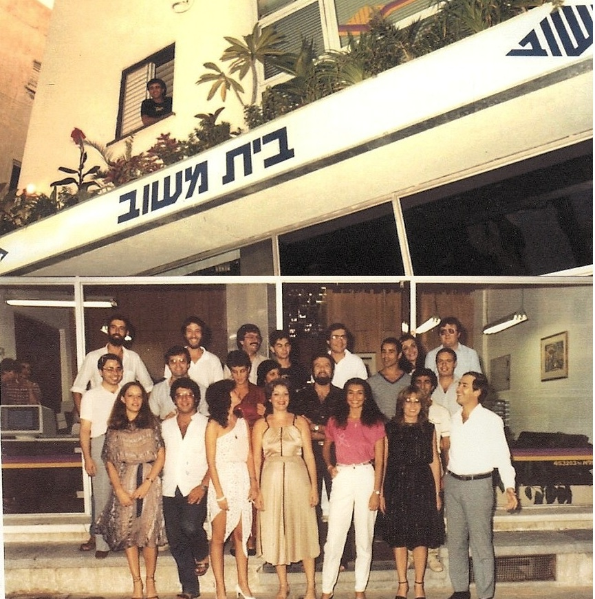 4 Yirmiahu st.,Tel Aviv. Jack Dunietz, David Assia, and employees.